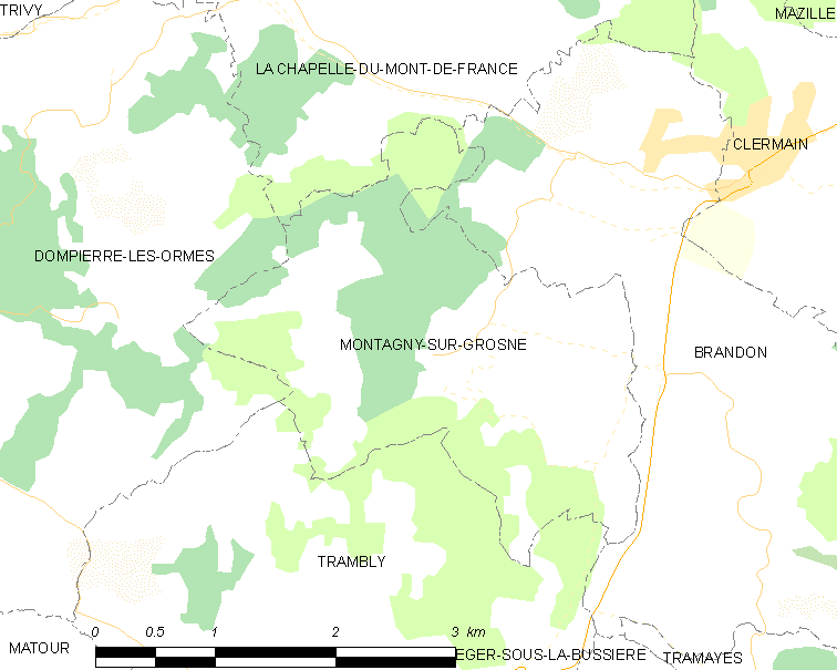 Map of French municipality